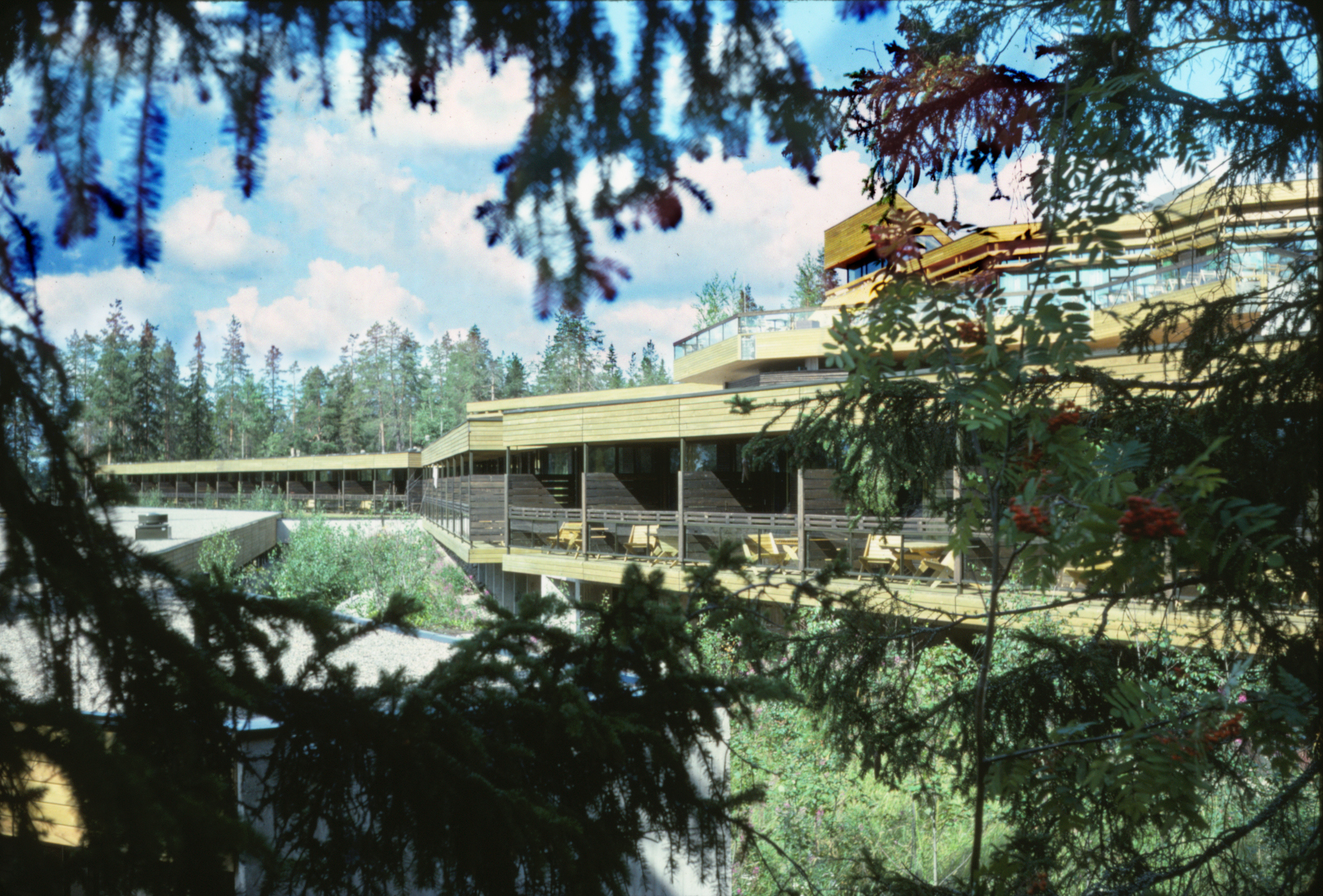 Hotel Mesikämmen, Ähtäri, Finland